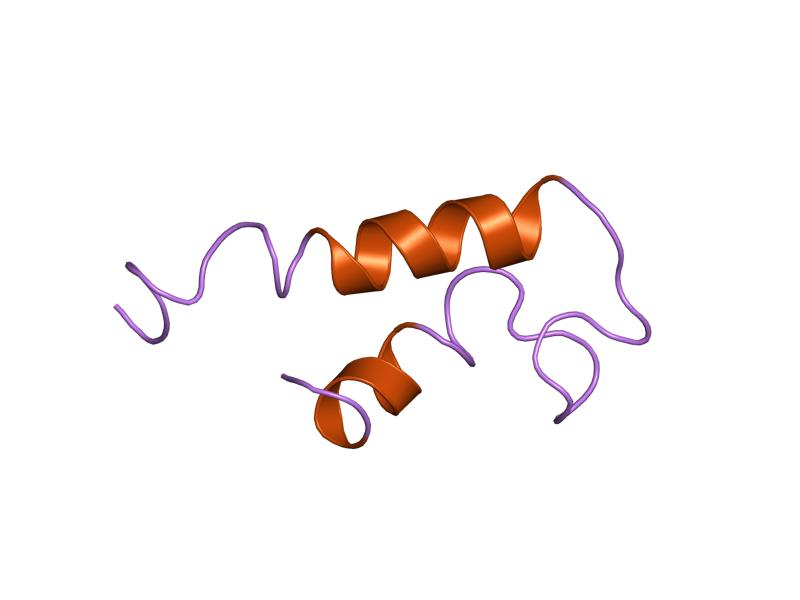 Cartoon representation of the molecular structure of protein registered with 1ehs code.